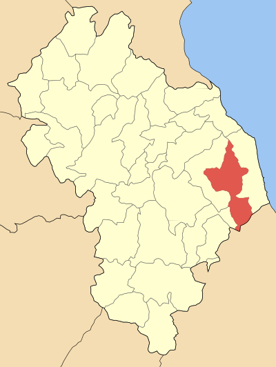 Locator map of Agia municipality (Δήμος Αγιάς) at Larisa perfecture, Greece.